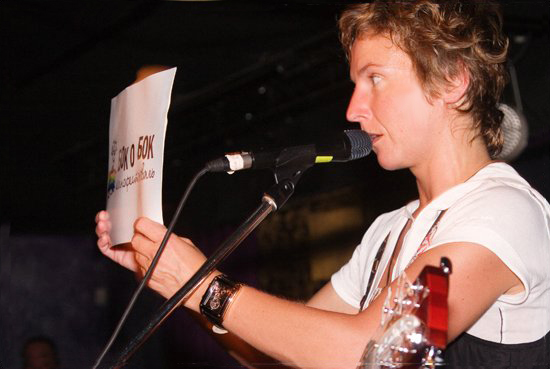 Svetlana Surganova. International Gay and Lesbian Film Festival «Side by Side»